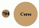 Simple visual diagram showing the size difference between 704 Interamnia and dwarf planet Ceres. This does not mean that Interamnia is in hydrostatic equilibrium.